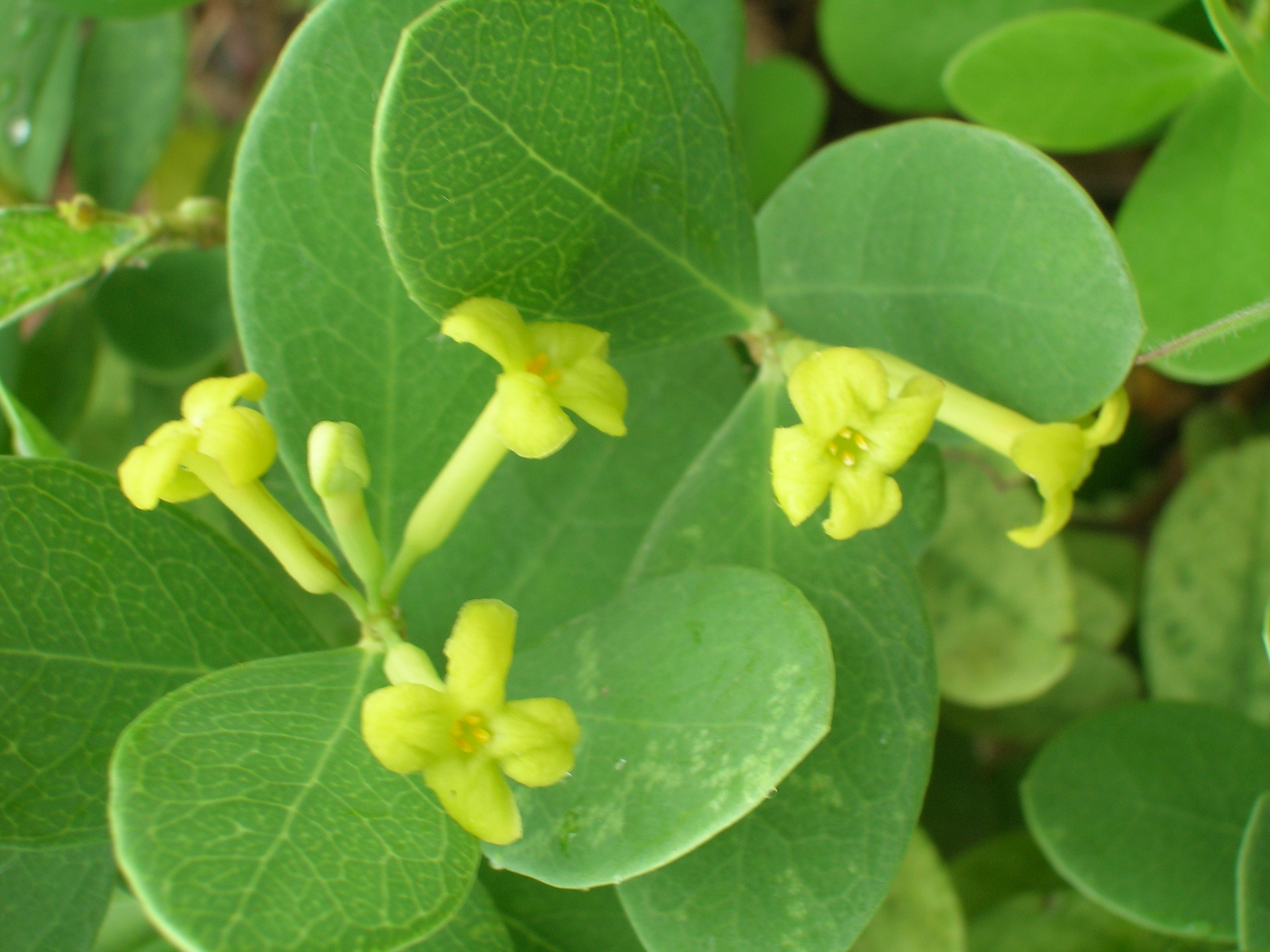 Wikstroemia uva-ursi (flowers). Location: Kahoolawe, Honokanaia